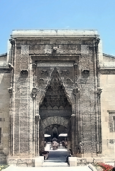 Buruciye Medresesi, Sivas, Turkey